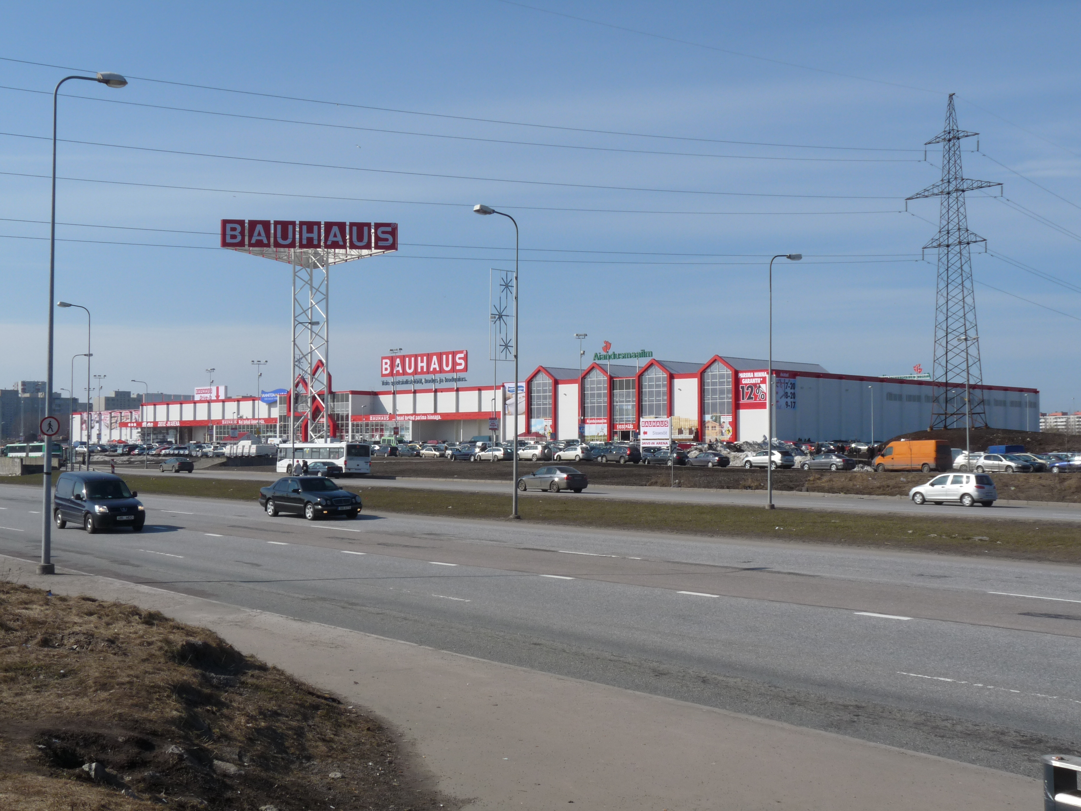 Bauhaus supermarket in Tallinn